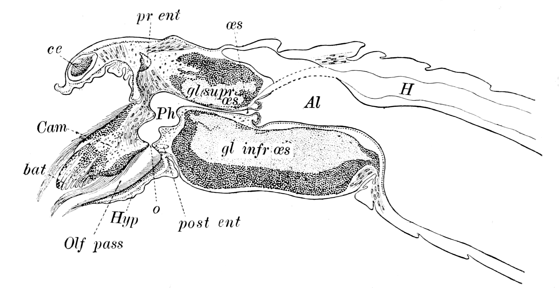 Median sagittal section through a young Thelyphonus. A the front end of the body is seen the median eye (ce), o is the mouth, Ph the phanynx, œs narrow oesophagus compressed between the supraoesophageal (supr œs) and infraoesophageal (infr œs) brain mass which opens into the large alimentary canal (Al); Olf pass is the olfactory passage to the mouth, lined with thick-set, very fine hairs, which spring from the hypostome (Hyp) as well as from the large conspicious camerostome (Cam) which limits this tube anteriorly. The space between the camerostome and the median eyes is fiiled up by the massive chelicerae, which are not shown in this section, as they begin to appear in the sections on each side of the median one. The muscles of the pharynx and the muscles of the camerostome are attached to the pre-oral entosclerite (pr ent). The post-oral entosclerite is shown in section as post ent. The dorsal-vessel, or heart, is indicated as H. Abbreviations: Al – alimentary canal bat – long, closely set sense rods ce – median eye Cam – camerostome H – heart Hyp – hypostome o – mouth œs – oesophagus Olf pass – olfactory passage to the mouth Ph – pharynx post ent – post-oral entosclerite pr ent – pre-oral entosternite supr œs – supraoesophageal brain mass supr œs – infraoesophageal brain mass